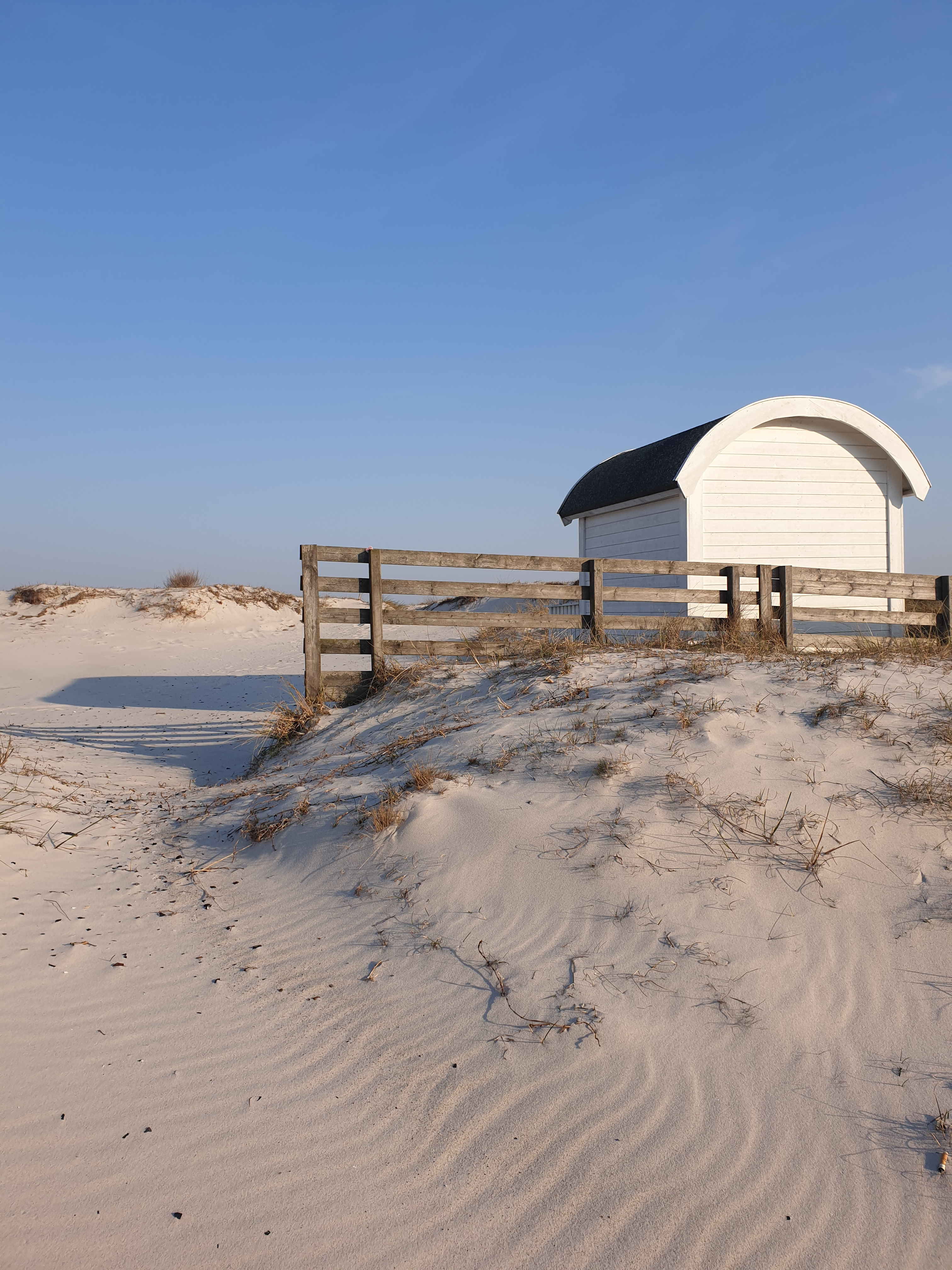 Beach hut in sunset in Ljunghusen